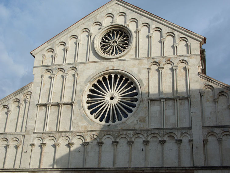 St. Anastasia's Cathedral in Zadar, Croatia